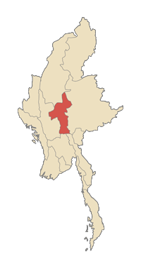 Mandalay division in Myanmar